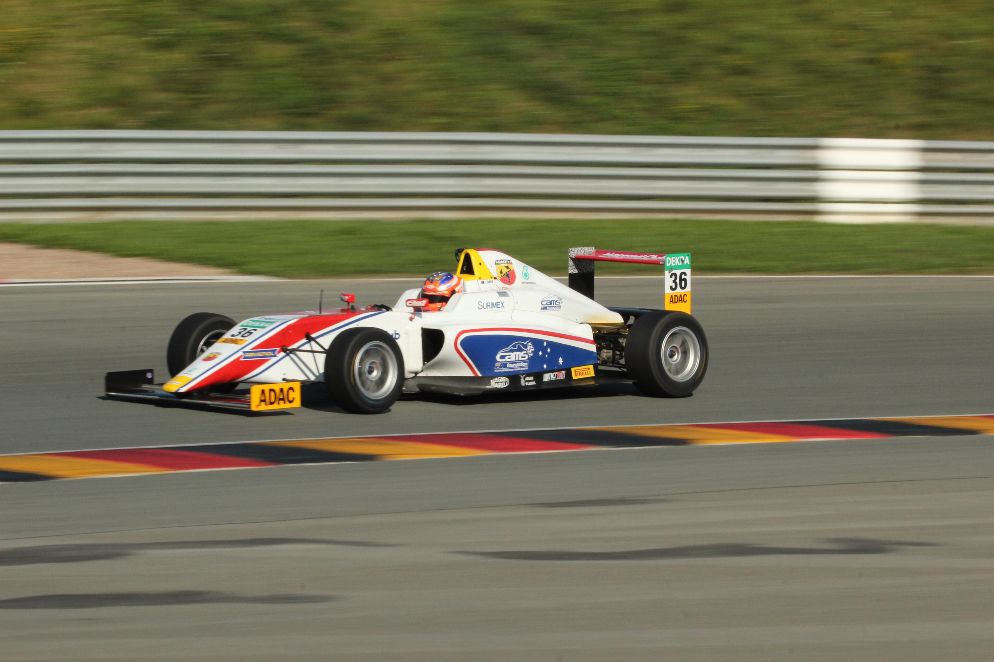 Joey Mawson at the Sachsenring in 2015, German Formula 4 Championship